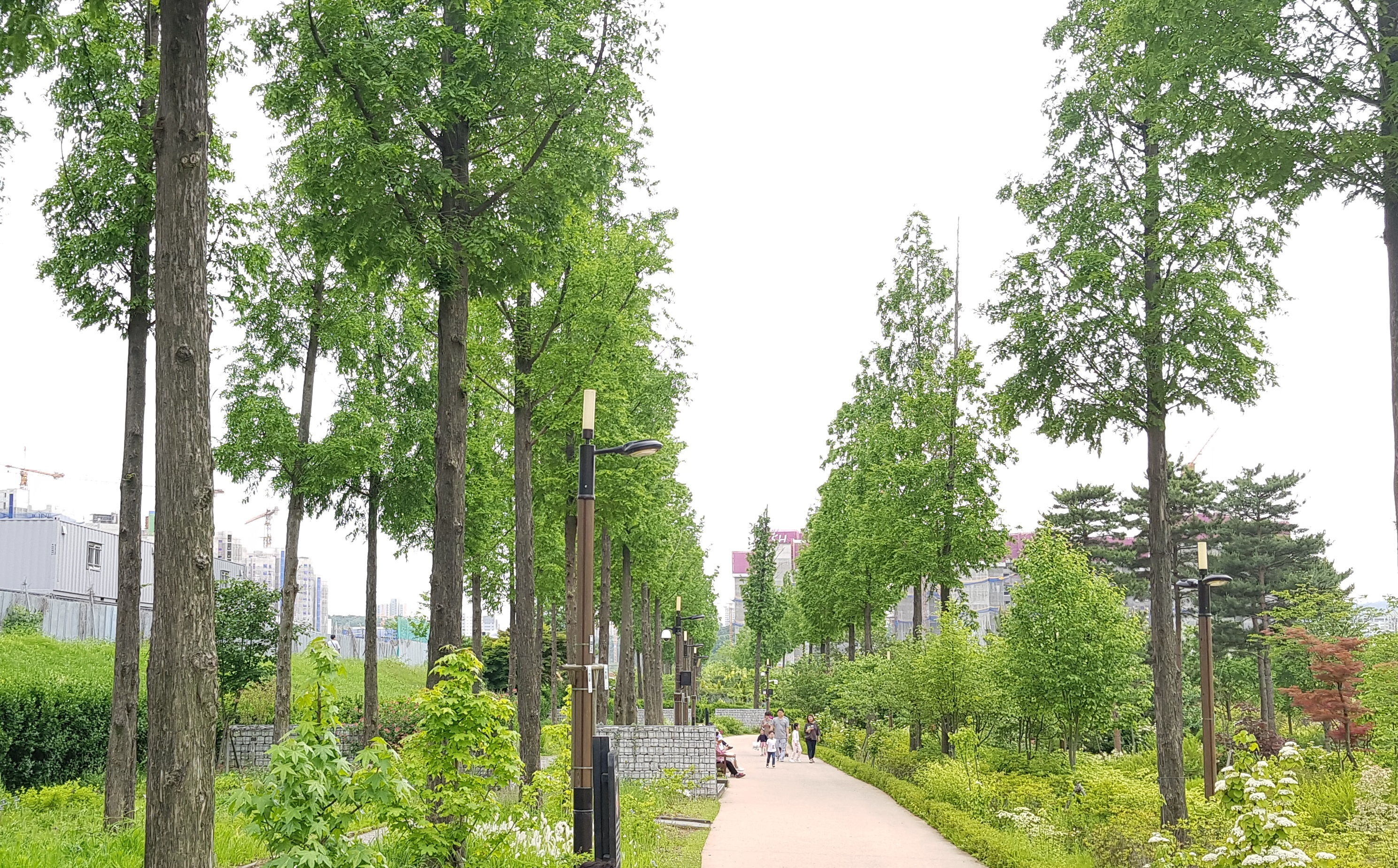 Pureun Arboretum in spring